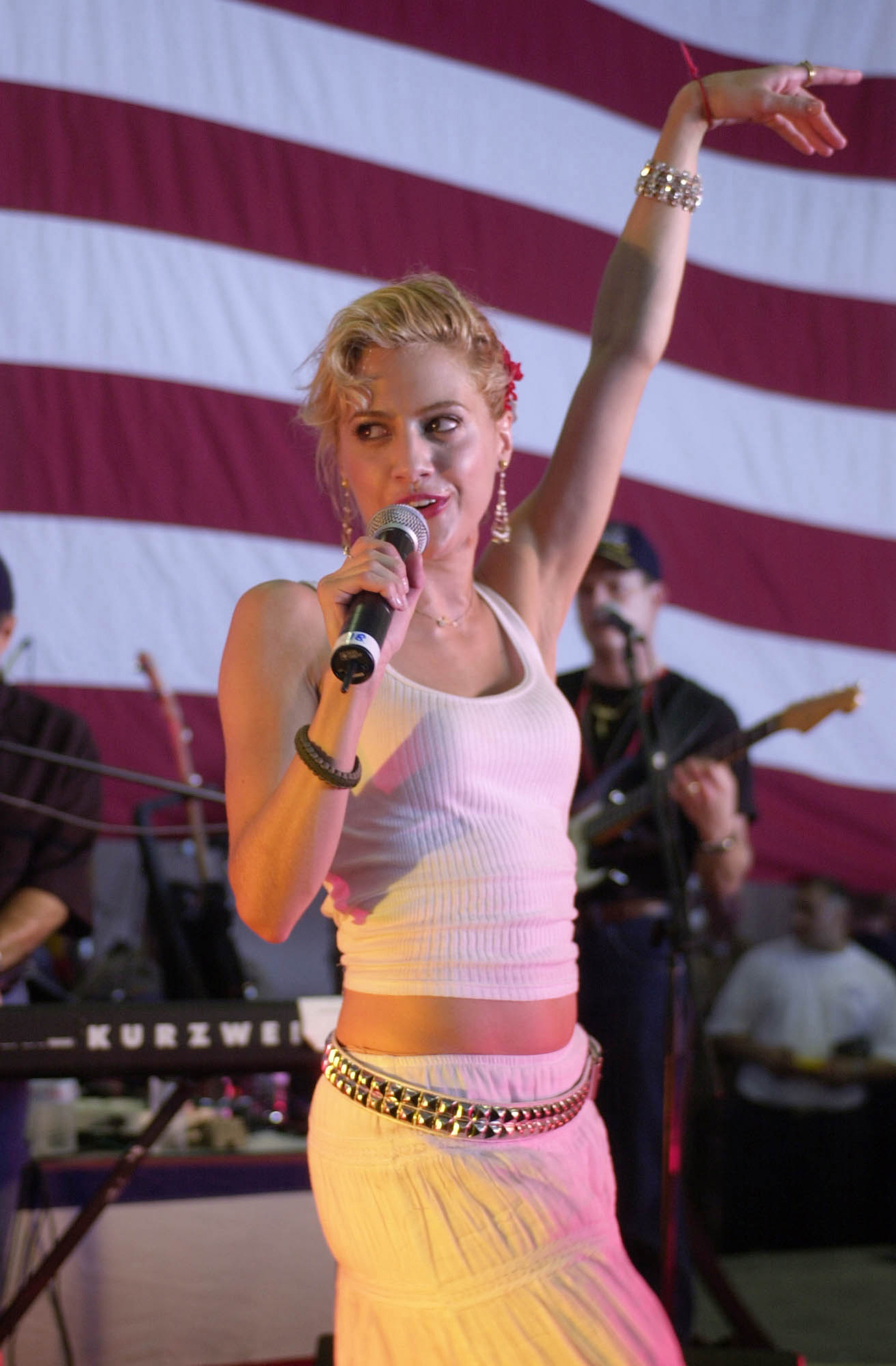 The Arabian Gulf (Jun. 19, 2003) -- Actress Brittany Murphy performs for crewmembers aboard USS Nimitz (CVN 68) and Carrier Air Wing Eleven (CVW-11) during visit aboard Nimitz for a United Service Organization (USO) show. Nimitz Carrier Strike Group and CVW-11 are deployed in support of Operation Iraqi Freedom. Operation Iraqi Freedom is the multi-national coalition effort to liberate the Iraqi people, eliminate Iraq’s weapons of mass destruction, and end the regime of Saddam Hussein. U.S. Navy photo by Photographer’s Mate Airman Shannon Renfroe.